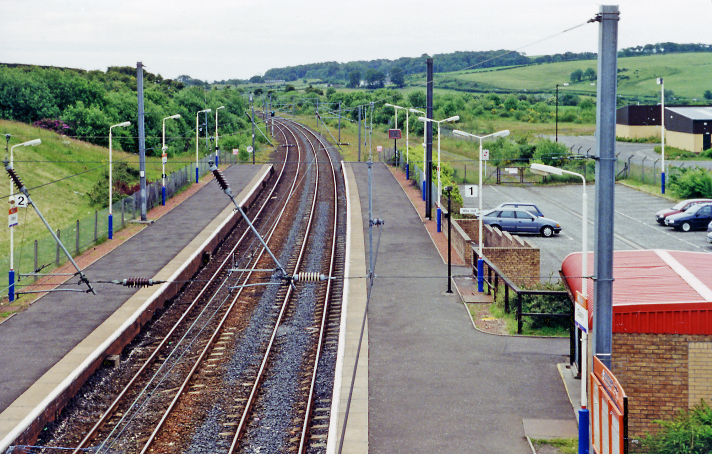 Dalry station, 1996. View southward, towards Ayr and Ardrossan, also formerly Crosshouse: ex-Glasgow & South Western main line to Ayr etc., electrified 9/86-1/87; the line to Crosshouse and Kilmarnock was closed 22/10/73.